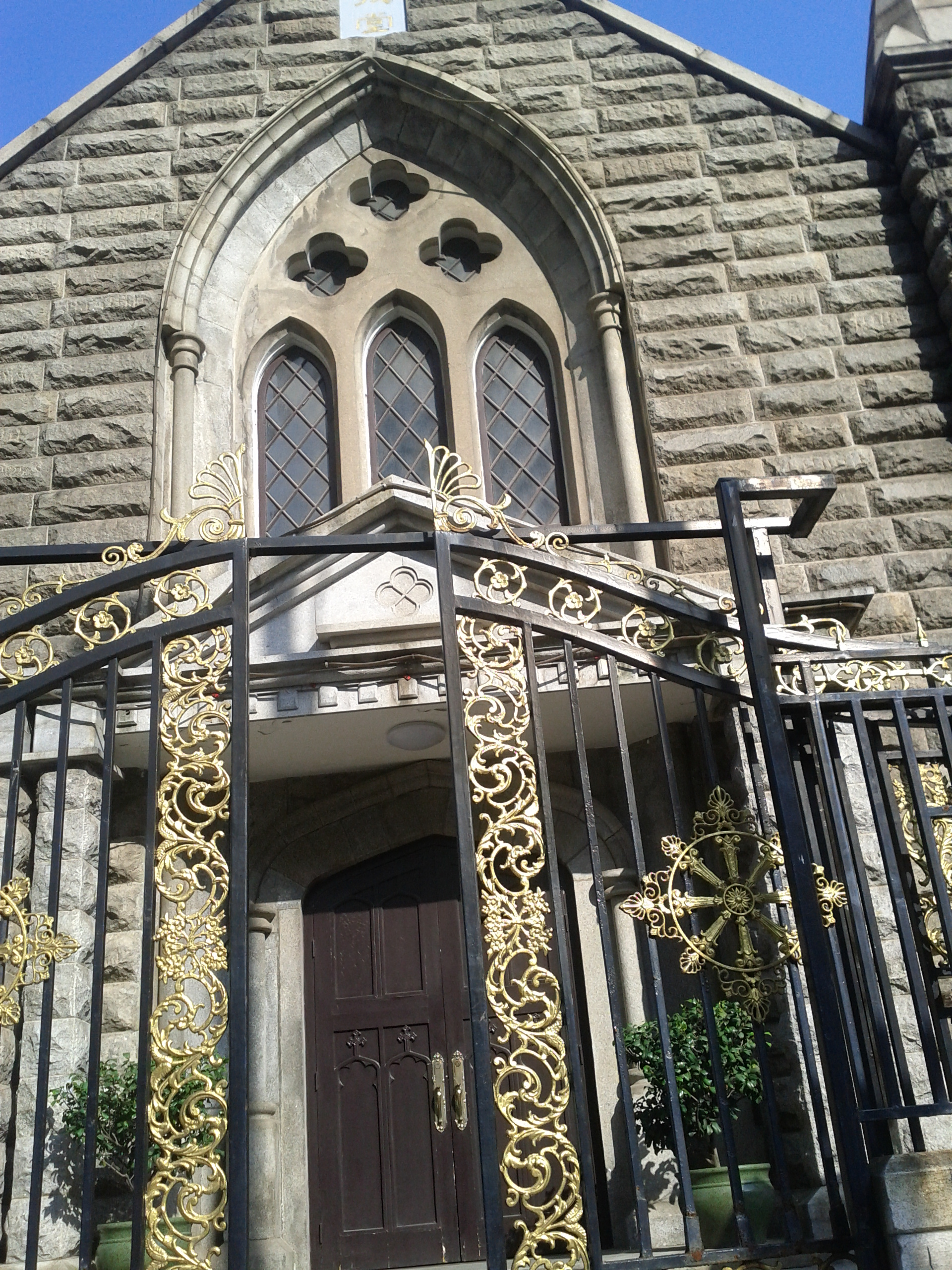 The Beizhengjie Christ Church is a 20th-century typical gothic church. It is located in Huangxing North Road of Changsha, Hunan province, China.中文（中国大陆）: 北正街基督教堂，原名圣公会三一堂，是中国湖南省长沙市的一座古老石砌教堂，位于开福区黄兴北路76号（北正街）。